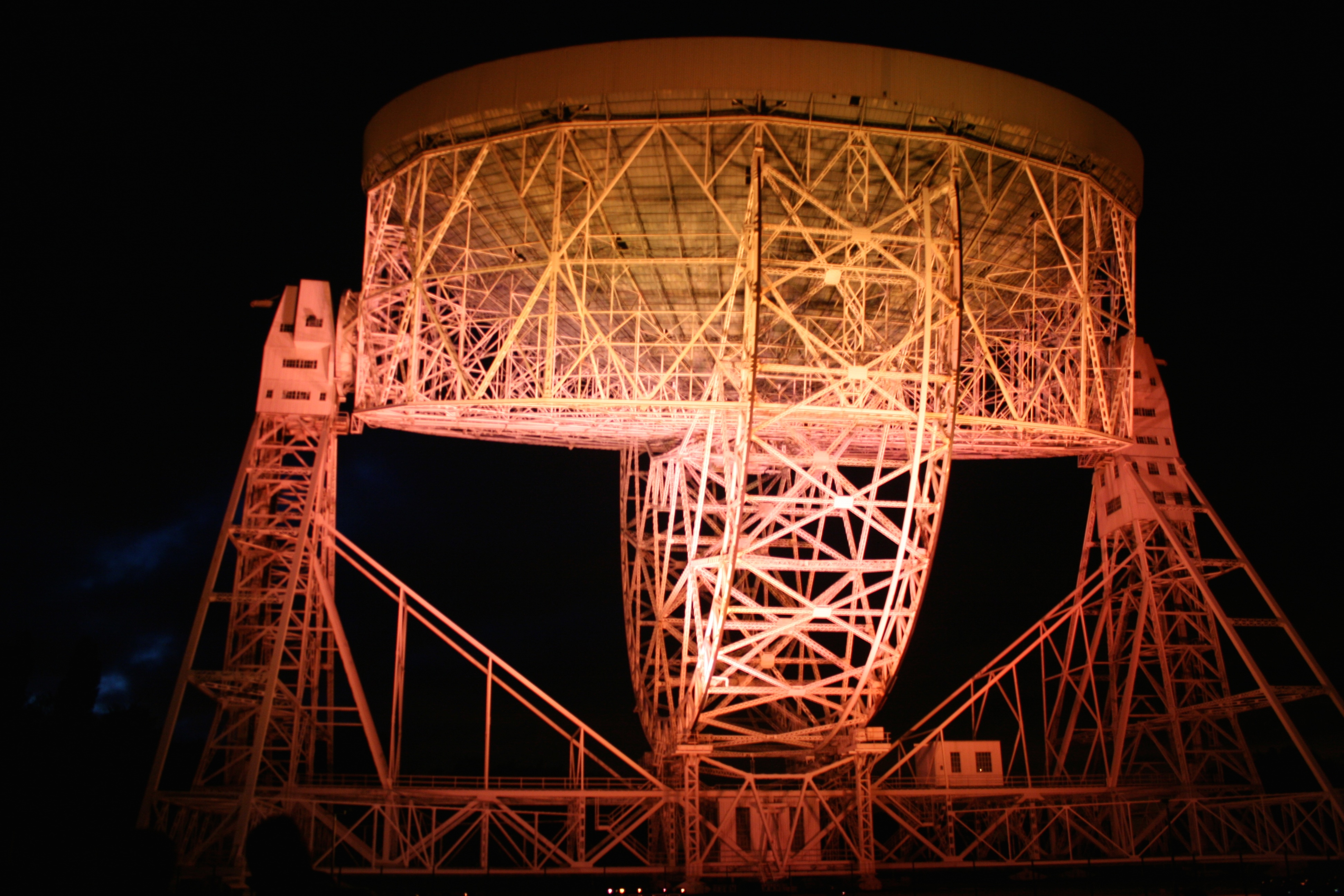 First Light celebrations at Jodrell Bank Observatory.